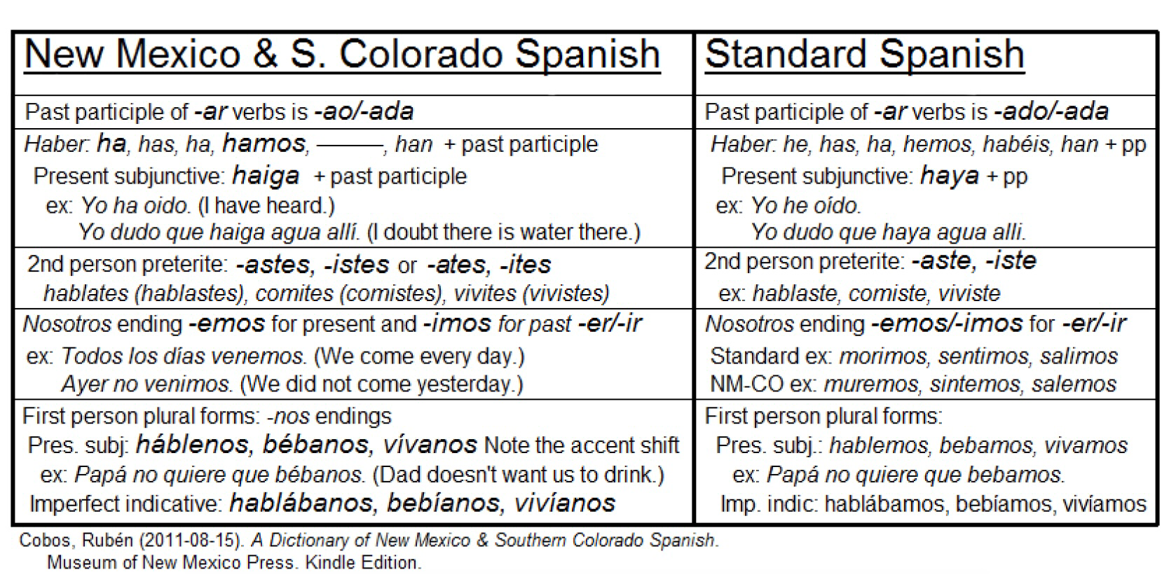 Comparison of New Mexican and Southern Colorado Spanish with Standard Spanish.